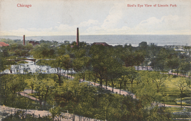 Matte color postcard reads, "Chicago: Bird's Eye View of Lincoln Park" Back is divided. Printed in Germany.